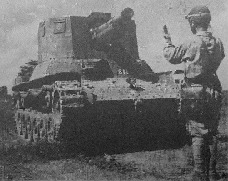 Imperial Japanese Army Type 1 10.5cm self-propelled gun Ho-Ni II.